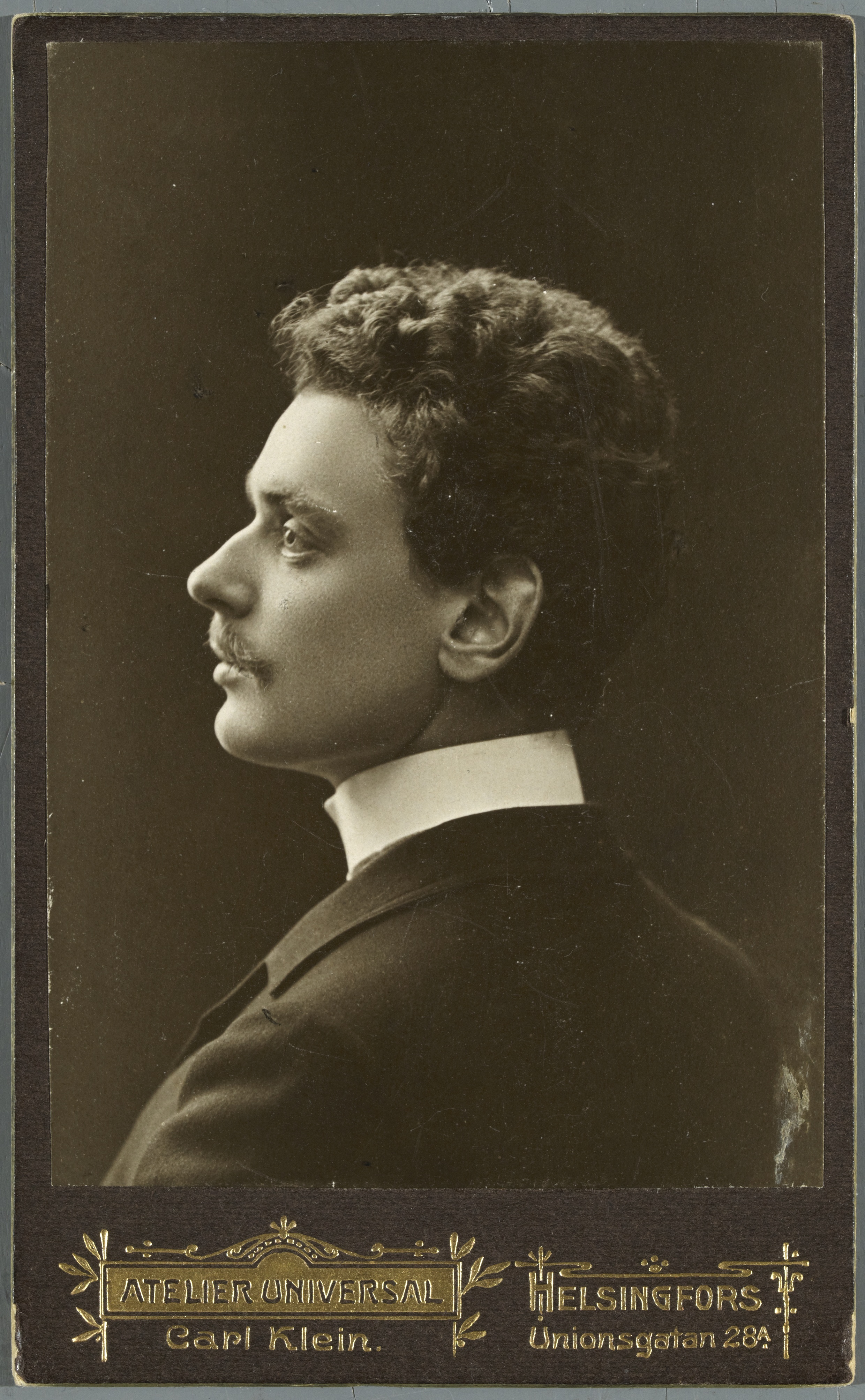 Photograph of the Finnish botanist and professor Jonni Sauli (1881–1957).